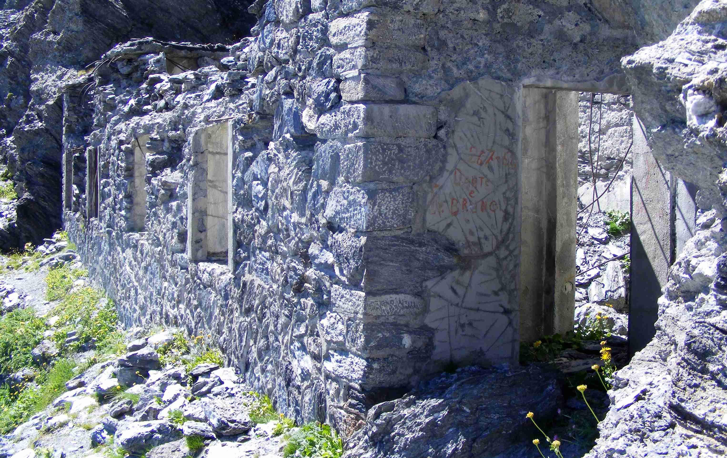 Pelouse pass military barrack (French/Italian border, Cottian Apls)